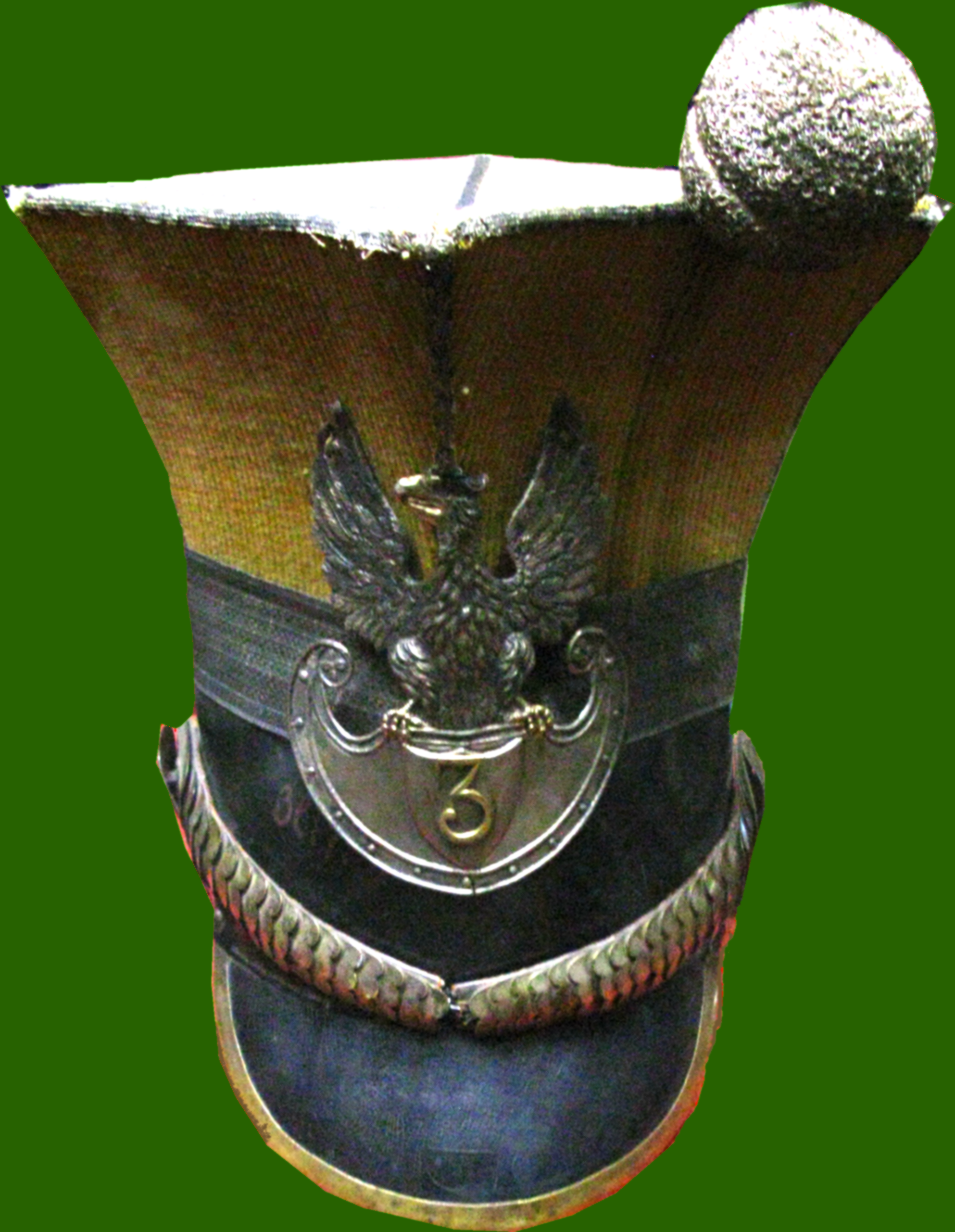 Tschapka of the officer of 3th Uhlan Regiment of Congress Poland